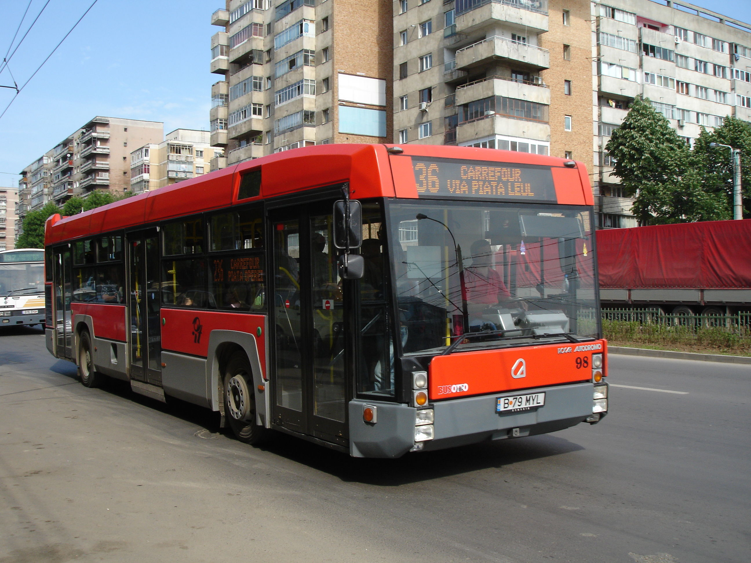 Public bus in Bucharest, Romania. Rocar U812 Autodromo (#98, reg. B 79 MYL), built 1998, RATB București operator.